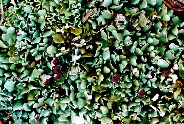 Cladonia sobolescens Nyl. ex Vainio, 1892 Photographed in the field. The photo shows very short podetia that barely rise above the primary squamules. This colony of Cladonia sobolescens was growing on soil near the metal gate on the S side of Wards Chapel Road at the Soldiers Delight Natural Environment Area, Baltimore County, Maryland, USA (N 39o25.130' W 76o50.478').